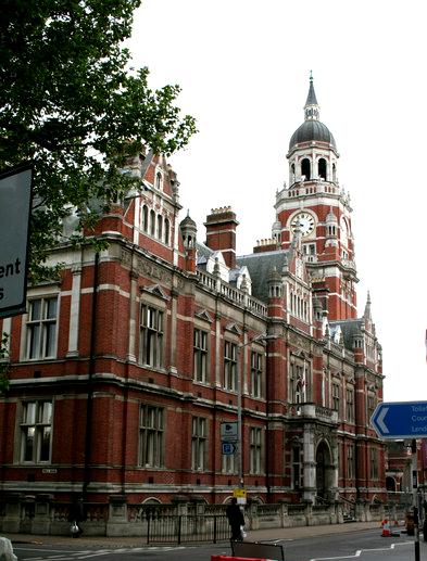 Croydon Town Hall Croydon's beautiful Town Hall stands in Katharine Street. It is closely surrounded by other buildings and is therefore somewhat difficult to appreciate as a whole.